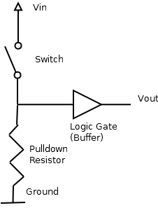 Shows a minimal pulldown resistor circuit.